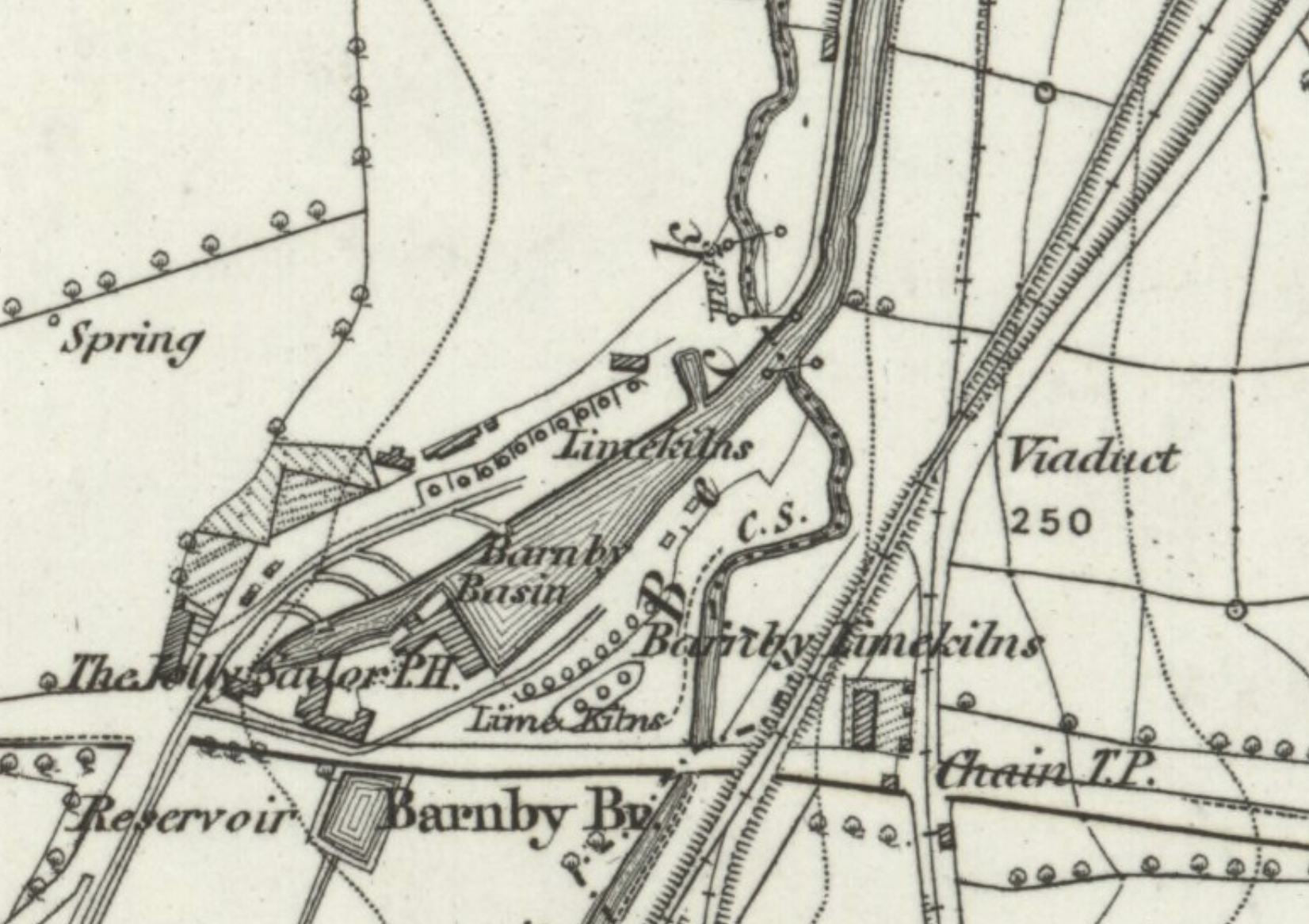 An extract from the 1850 Ordnance Survey map of Yorkshire (Number 274) showing Barnby Basin, the northern terminus of the Silkstone Waggonway